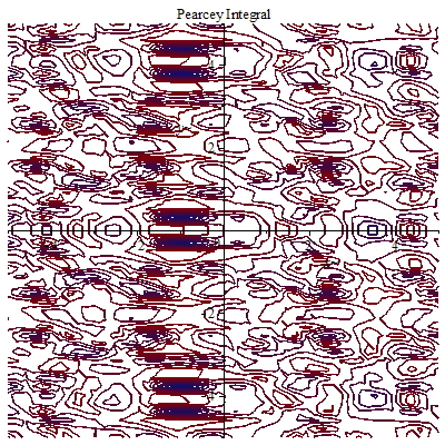 Pearcey Integral Maple contour plot